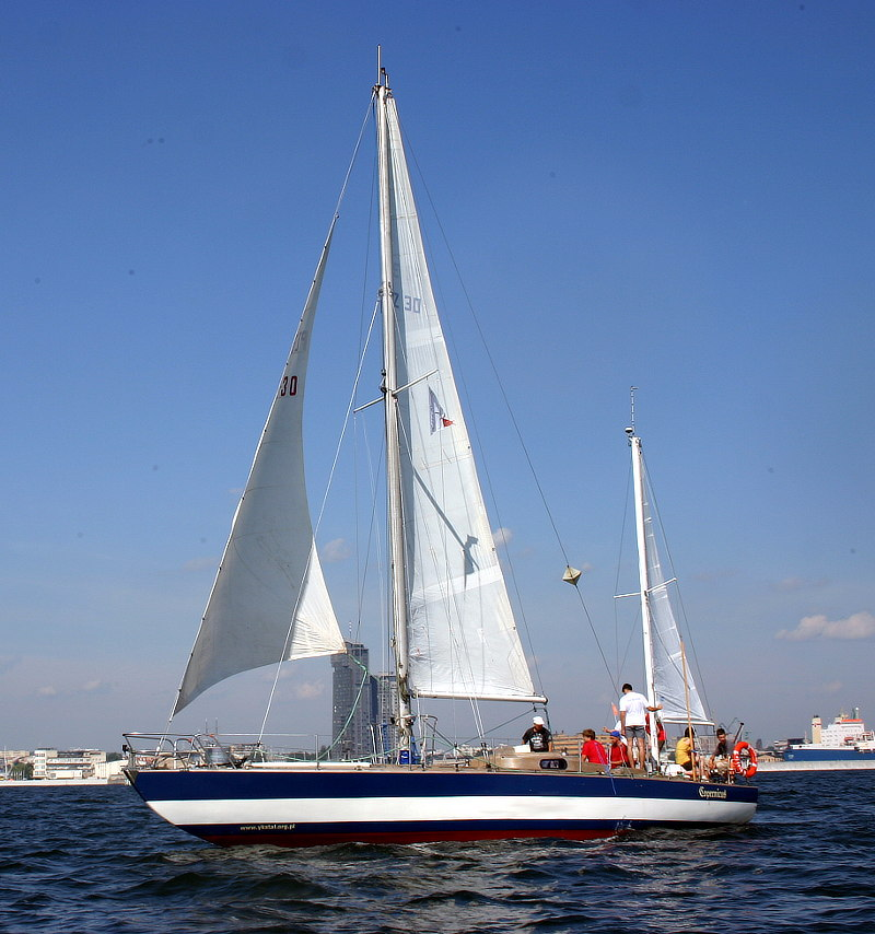 Sailing yacht s/y Copernicus